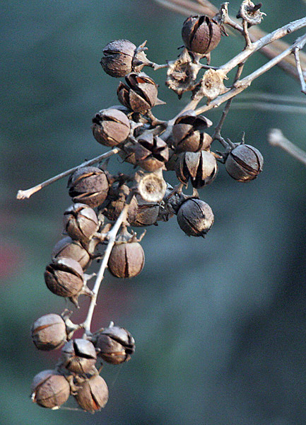 (Giant Crape-myrtle, Queen's Crape-myrtle or Banabá Plant) Lagerstroemia speciosa. Kolkata, West Bengal, India.